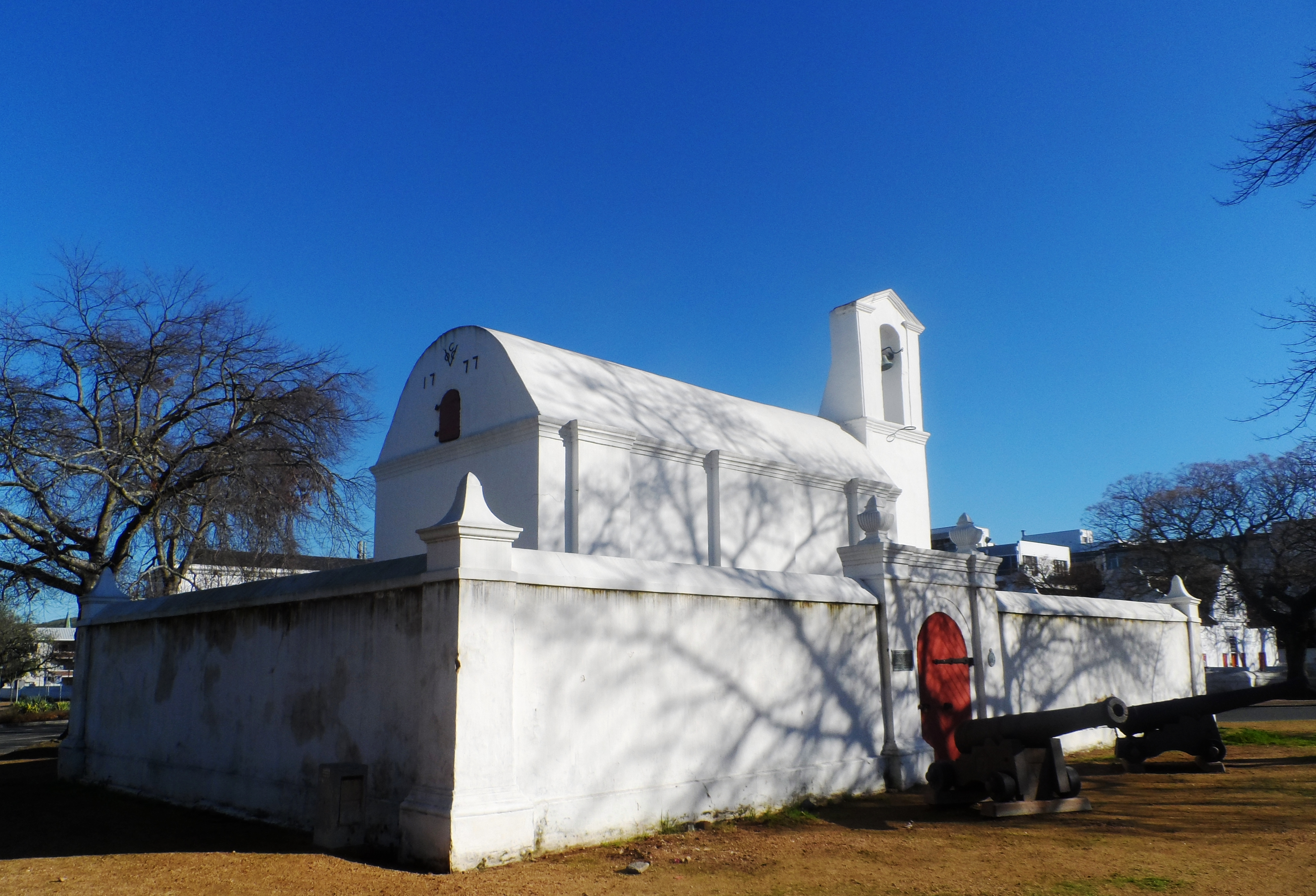 Powder Magazine, Stellenbosch This media shows a South African Protected Site with SAHRA file reference 9/2/084/0063.